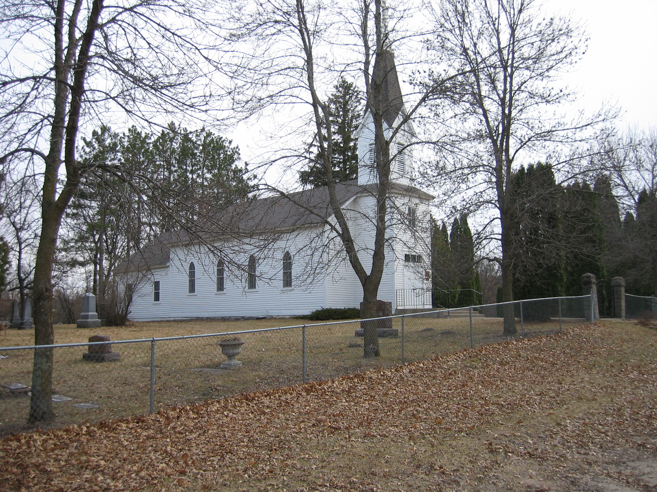 in Ham Lake, MN. Taken in Spring 2005 by Bill Magnuson. Category:Images of Minnesota - should be in Commons Category:Registered Historic Places in Minnesota